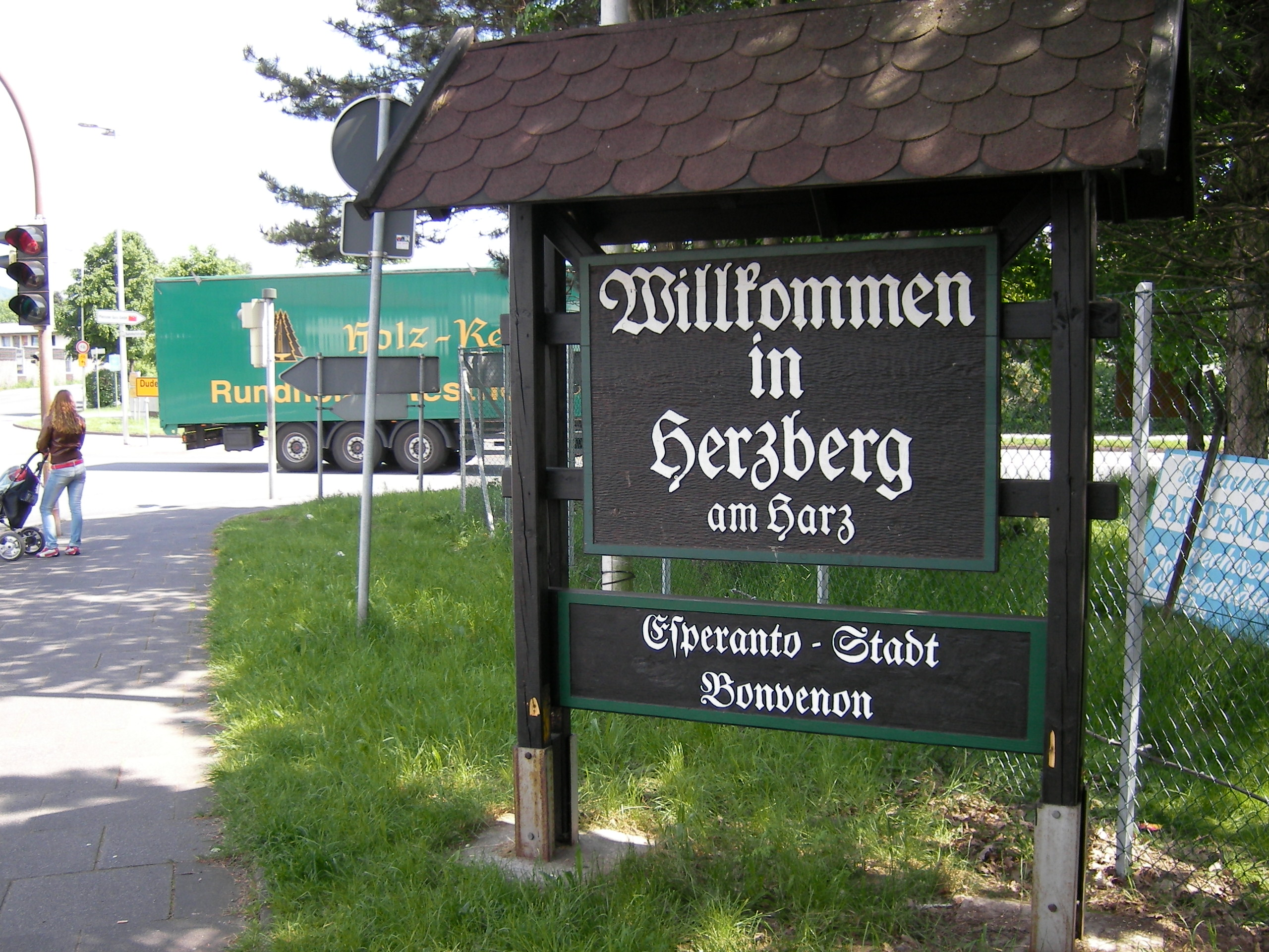 Shield in Herzberg